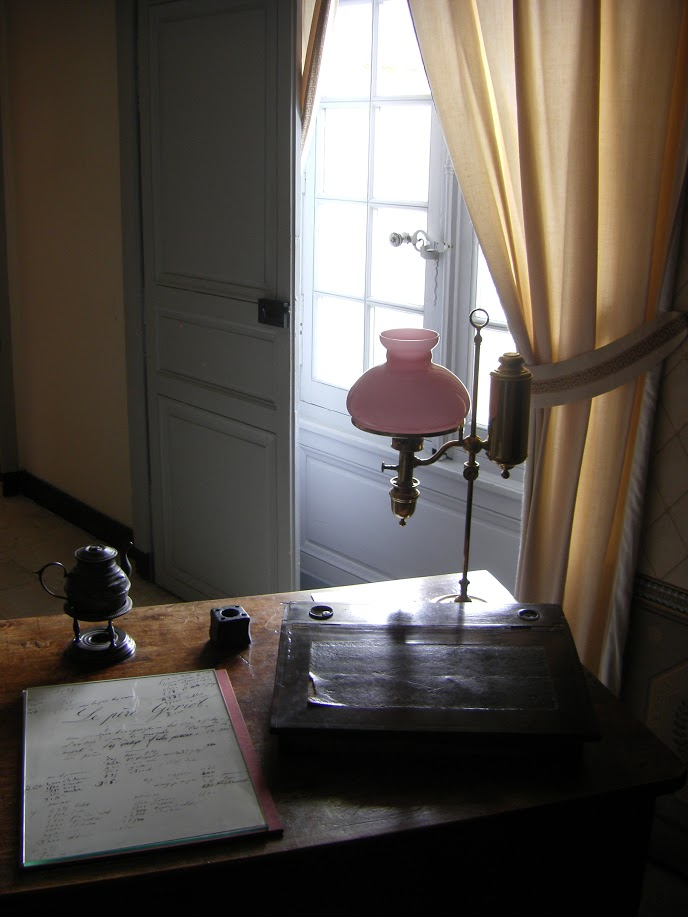 Table de travail d'Honoré de Balzac au château de Saché où il venait se réfugier lorsque ses créanciers se faisaient trop pressants. Il y écrivit Le Lys dans la vallée.